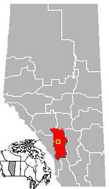 Location of Cochrane, Census Division No. 6, Albera